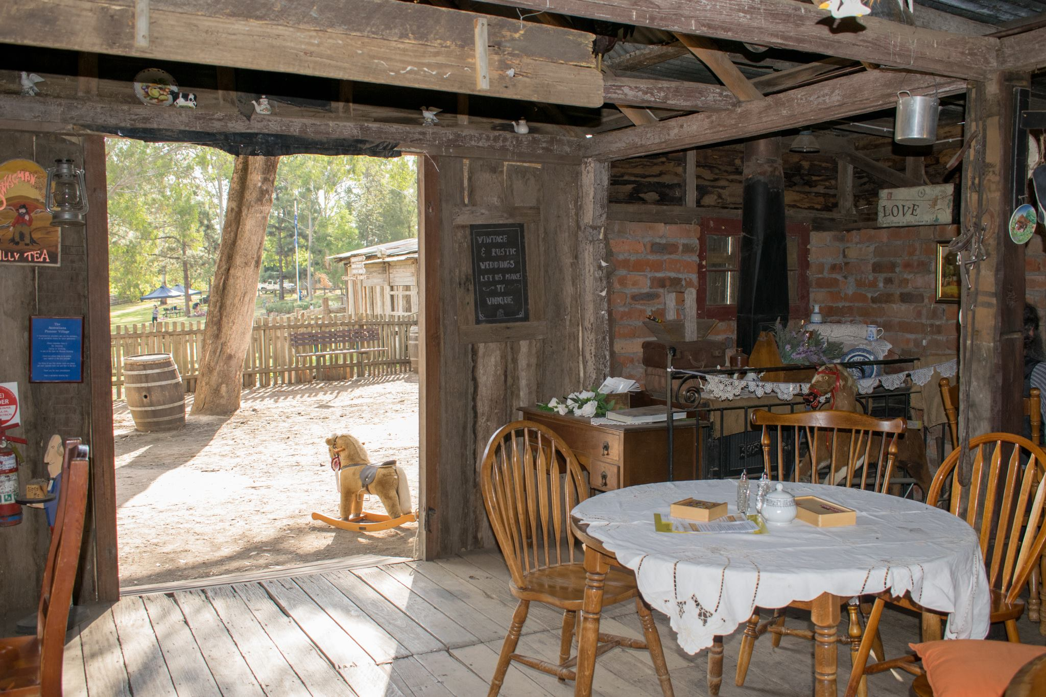 View from inside the cafe at the Australiana Pioneer Village in Wilberforce.